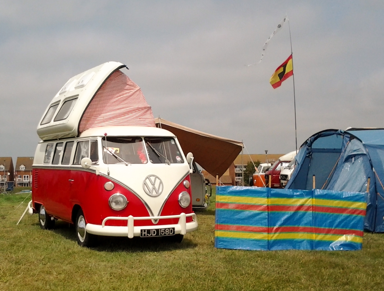 In Eastbourne.